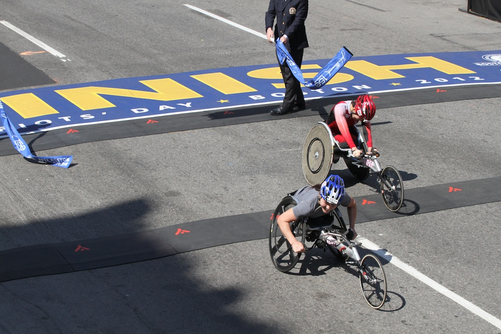 April 16, 2012: The winner of the women's wheelchair race, Shirley Reilly from USA, crosses the finish line one second before the runner-up Wakako Tsuchida from Japan finishes at 116th Boston Marathon. (First: 1:37:36 hours/ Second: 1:37:37 hours) (Hyunah Jang / Boston University News Service)